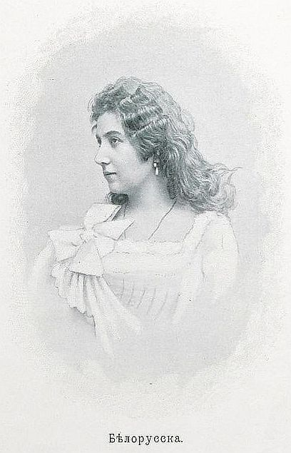 Byelorussian